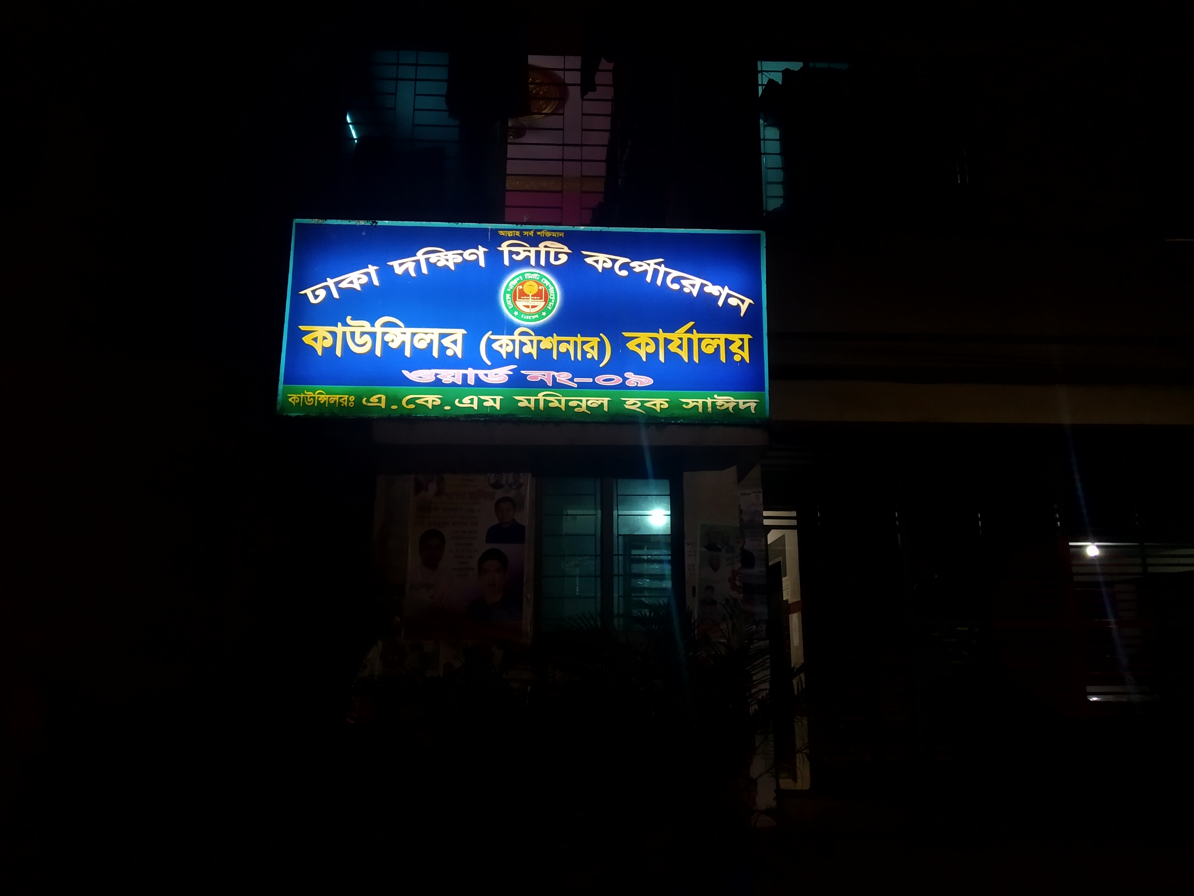 DSCC Councilor bhavan ward-9